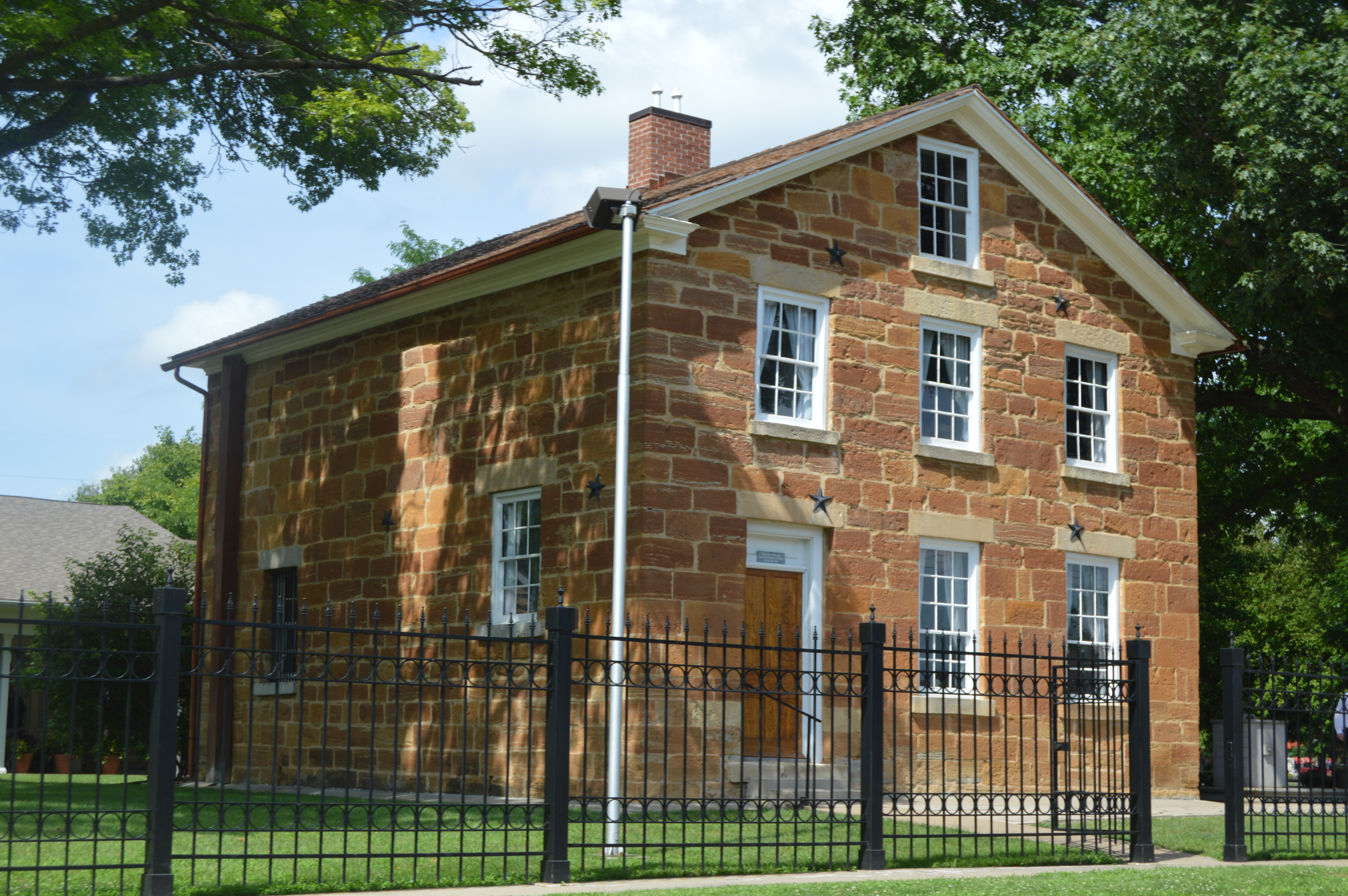 Front and western side of the Carthage Jail, located at the intersection of Walnut and Fayette Streets in Carthage, Illinois, United States. Here was killed the founder of Mormonism, Joseph Smith, Jr.. The building is now owned by the LDS Church and has been listed on the National Register of Historic Places.